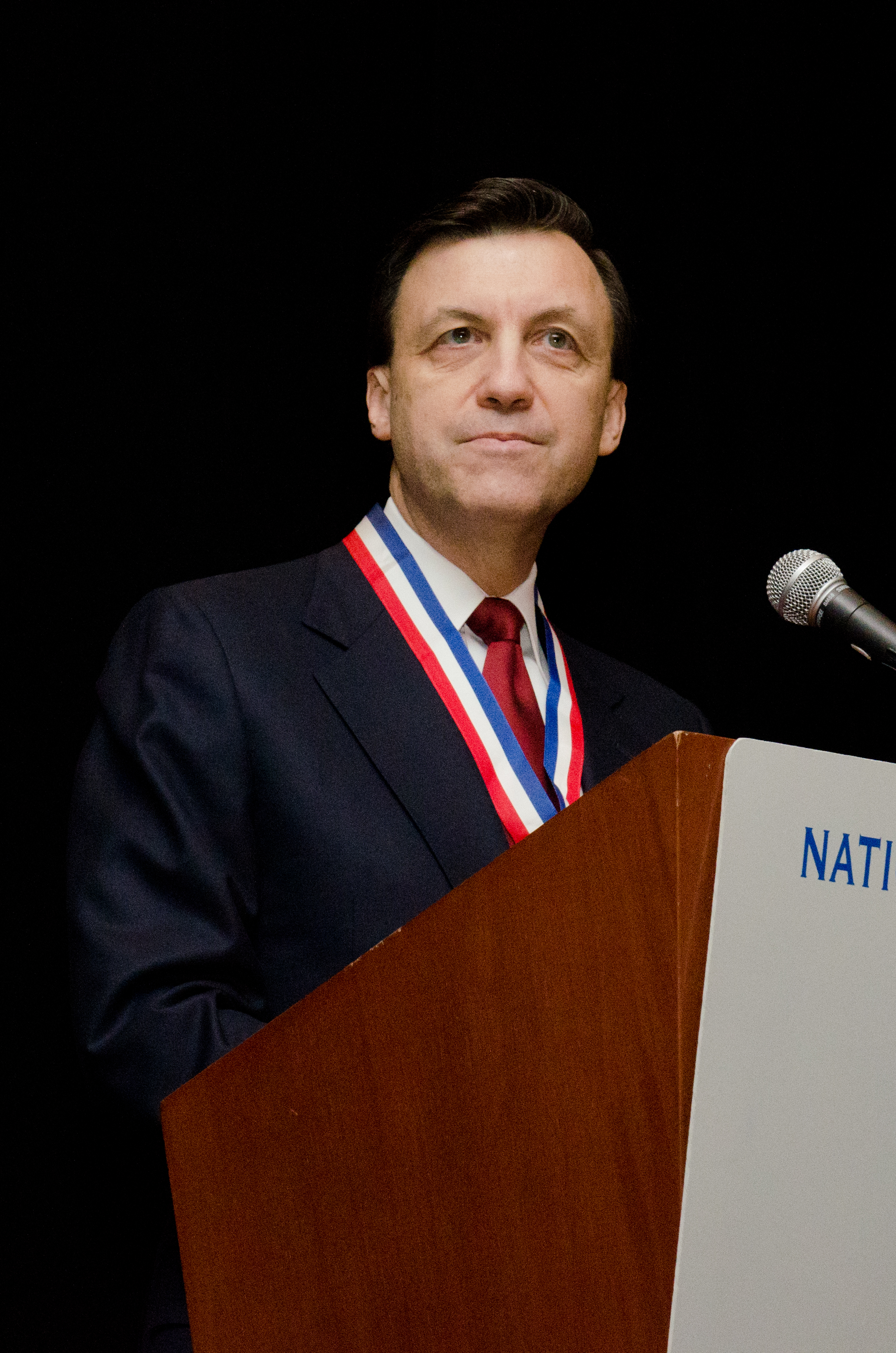 Michael Pocalyko receiving the Distinguised Eagle Scout Award, Tysons Corner, Virginia, November 2011